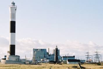 photo of the site and the lighthouses and nuclear power stations. Dungeness, Kent, UK.